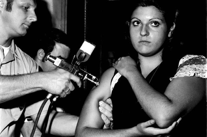 Vaccinazione anti-colera con siringa a pistola